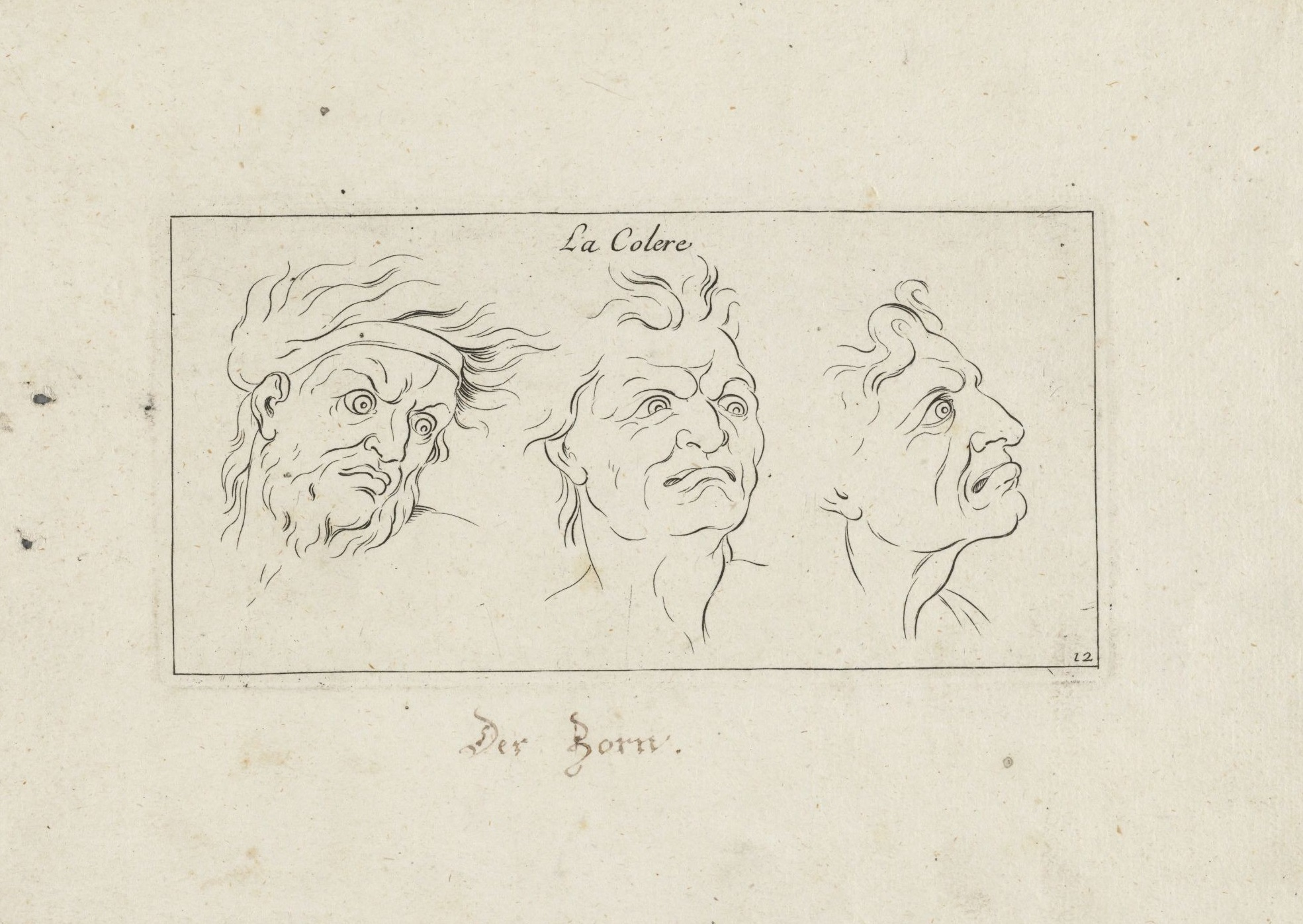 Illustration: "La colere," plate 12, from Caracteres des passions, Paris: 1696, by Sébastien Le Clerc. Typ 615.96.514, Houghton Library, Harvard University